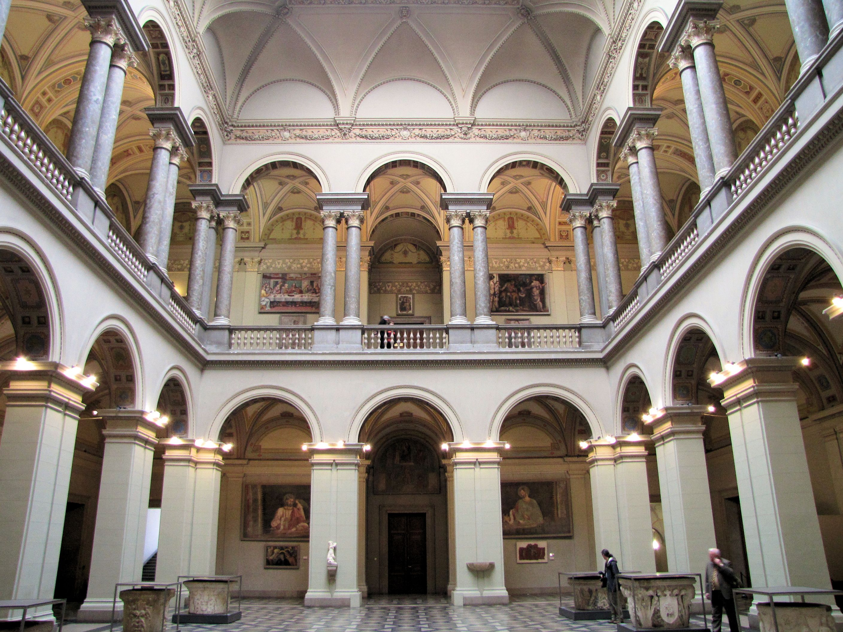 Renaissance Hall of the Museum of Fine Arts, Budapest.